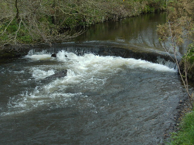 Weir on the River Neb.